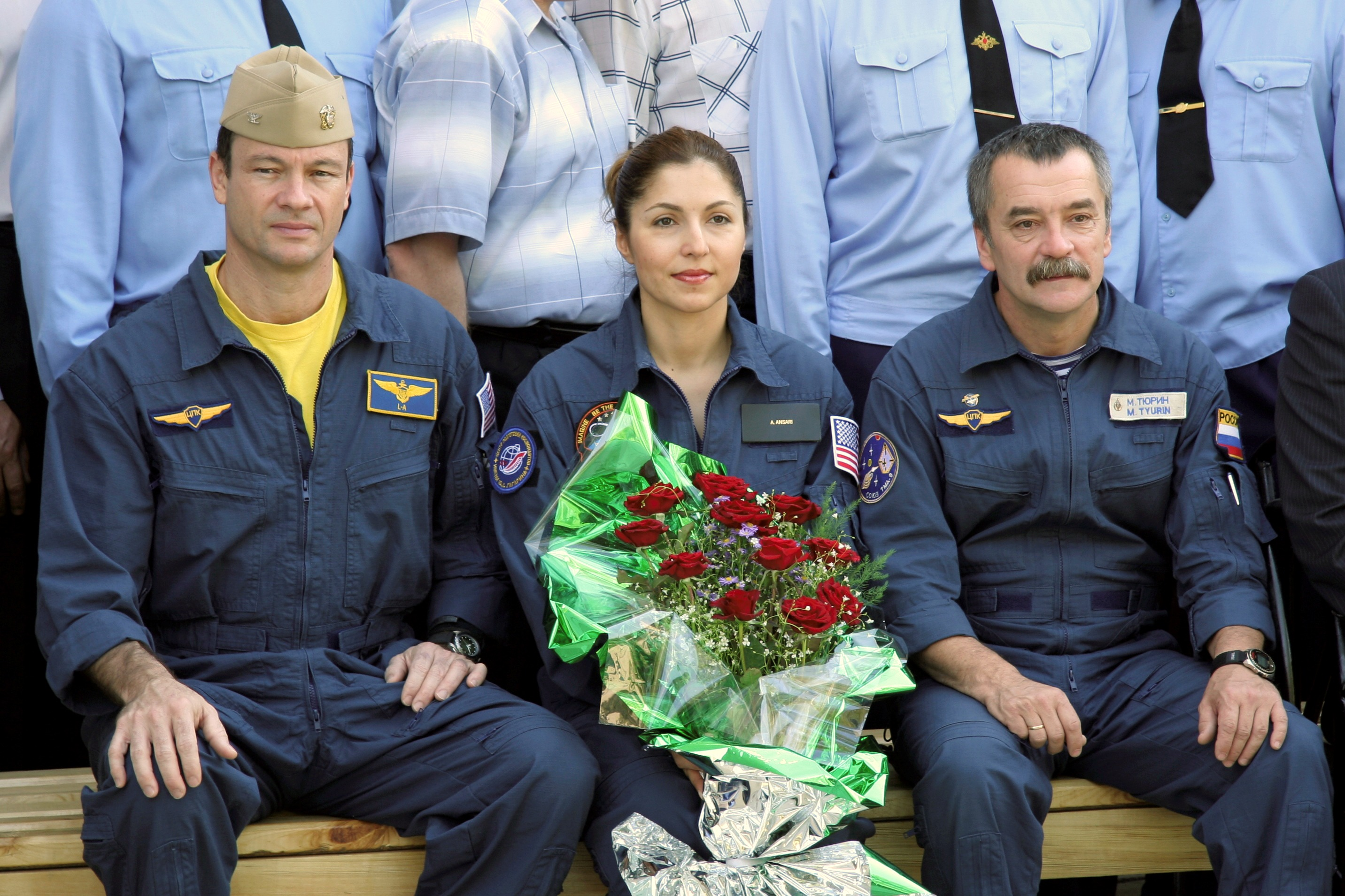 Astronaut Michael E. Lopez-Alegria (left), Expedition 14 commander and NASA space station science officer; spaceflight participant Anousheh Ansari; and cosmonaut Mikhail Tyurin, flight engineer and Soyuz commander representing Russia's Federal Space Agency, participate in the traditional flag-raising ceremony at the Cosmonaut Hotel in Baikonur, Kazakhstan on Sept. 5, 2006 as they prepare for their launch Sept. 18 on a Soyuz TMA-9 spacecraft to the International Space Station. Photo credit: Victor Zelentsov/NASA